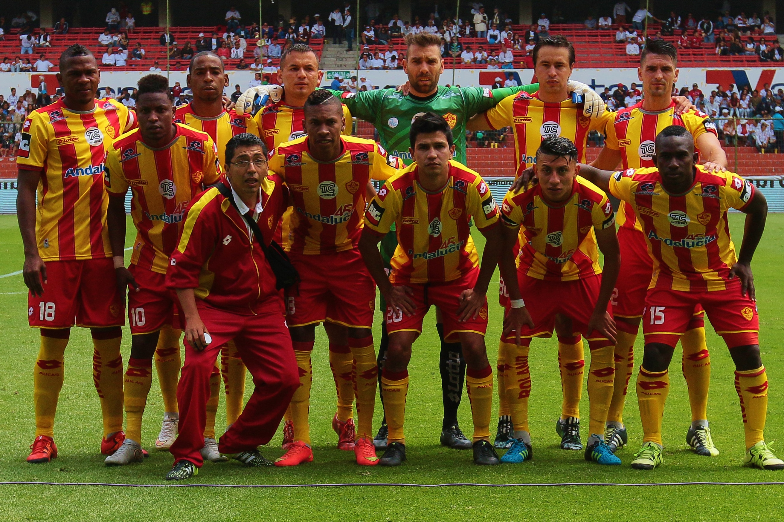 Sociedad Deportiva Aucas 22.112015